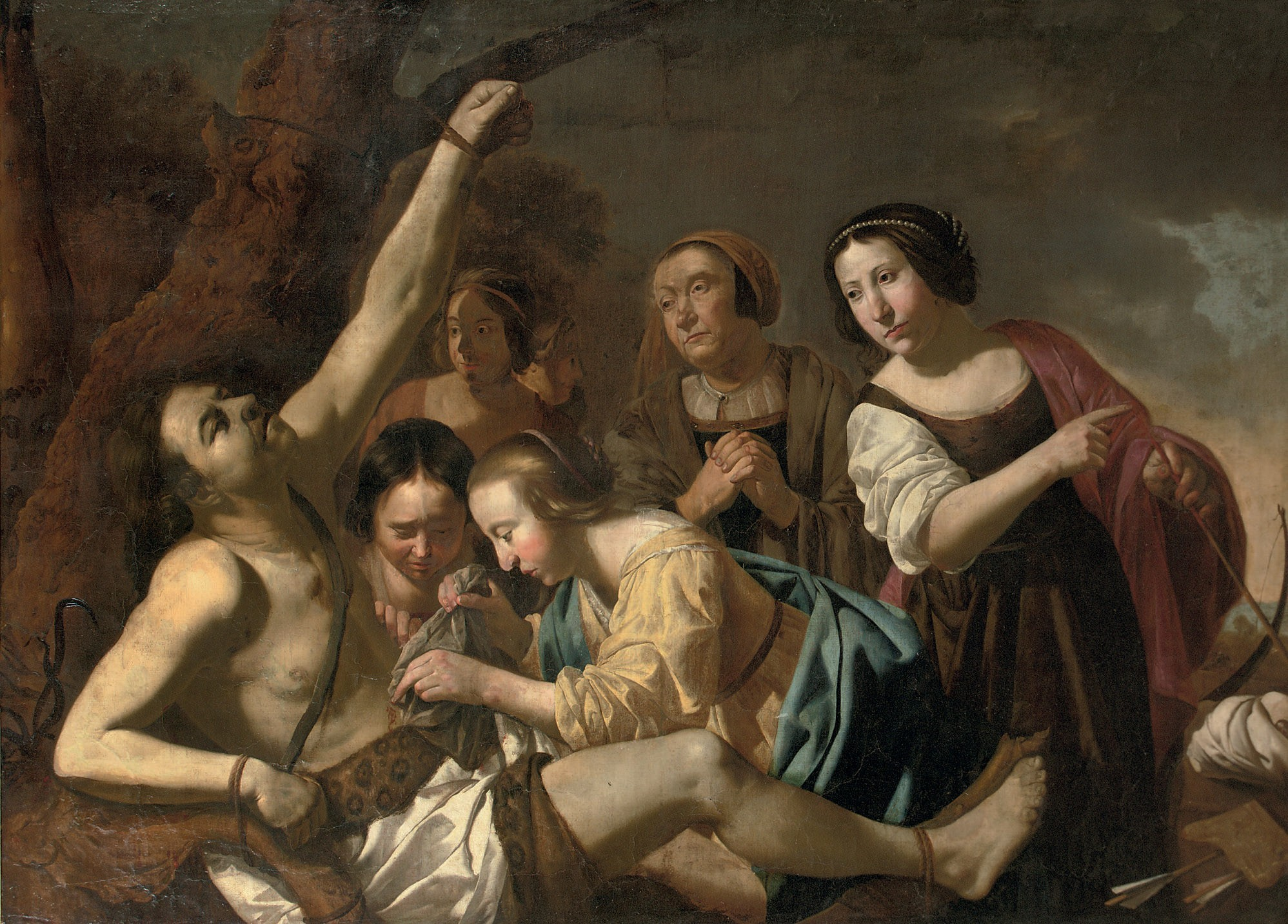 Saint Sebastian attended by Saint Irene, sold at Christie's New York in 2008